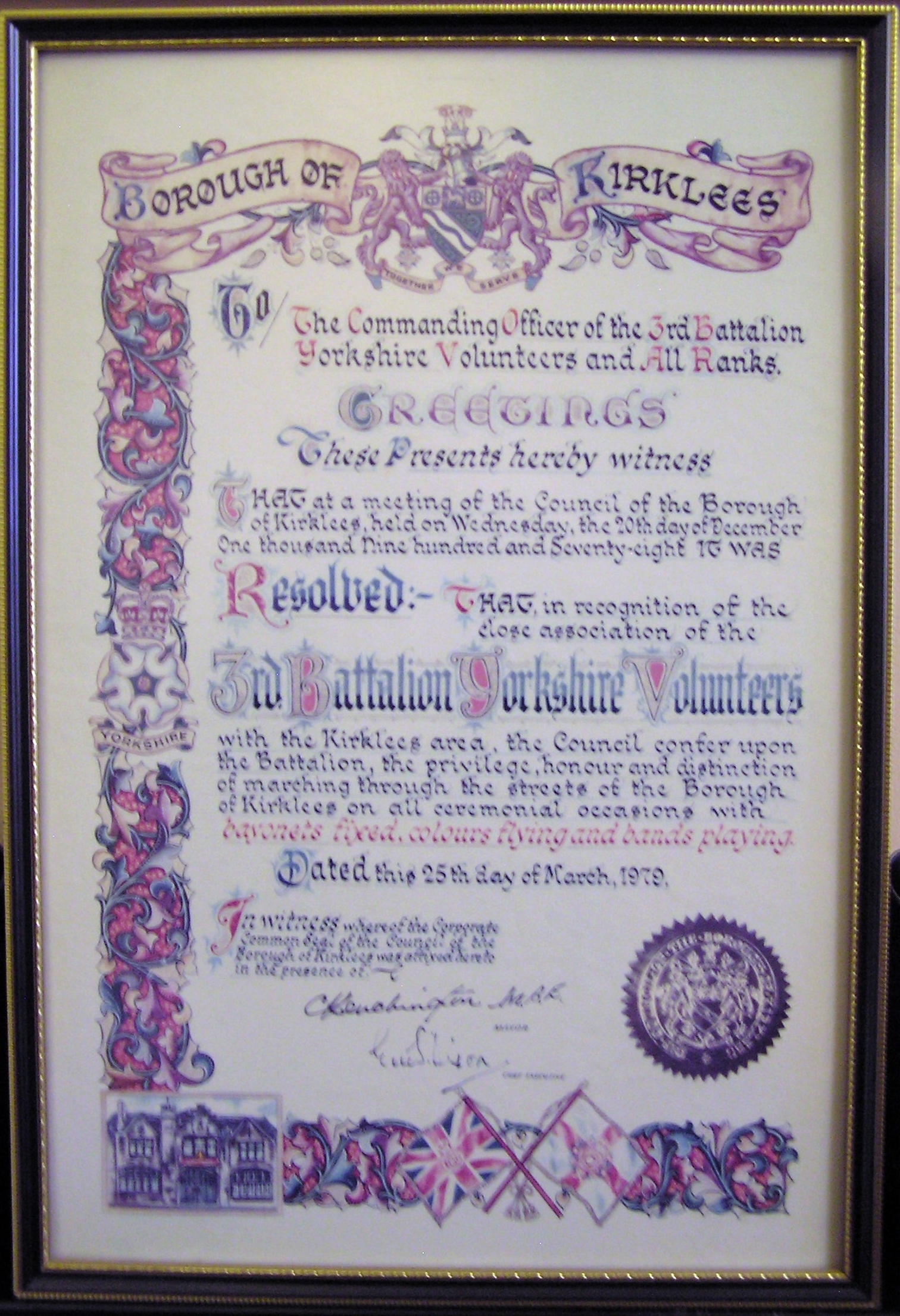 Photo of the Freedom Scroll presented, By The Borough of Kirklees, to the 3rd Battalion Yorkshire Volunteers in 1979. This Scroll is on Public display at the Regiments Area HQ in Halifax, West Yorkshire.